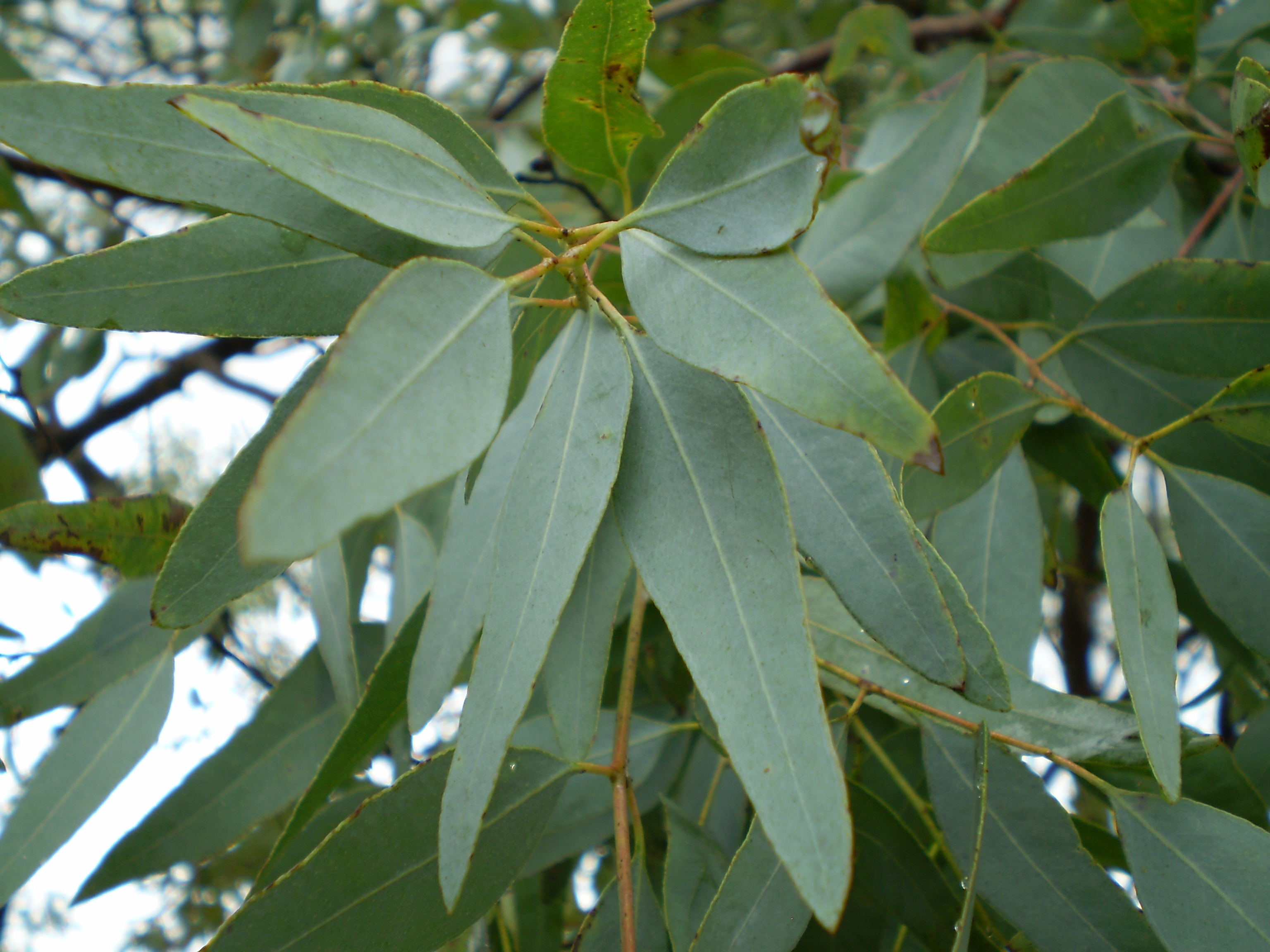 Leaf of Eucalyptus staigeriana, lemon ironbark. – Location: Northern New South Wales, Australia. Cultivated tree.